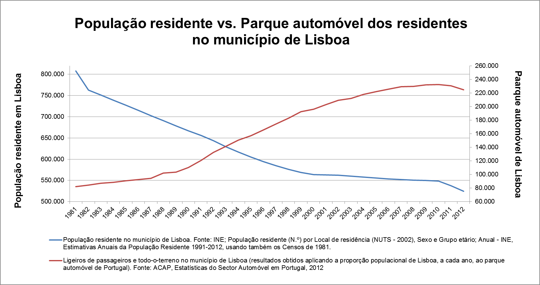 Population and automobiles in Lisbon, Portugal